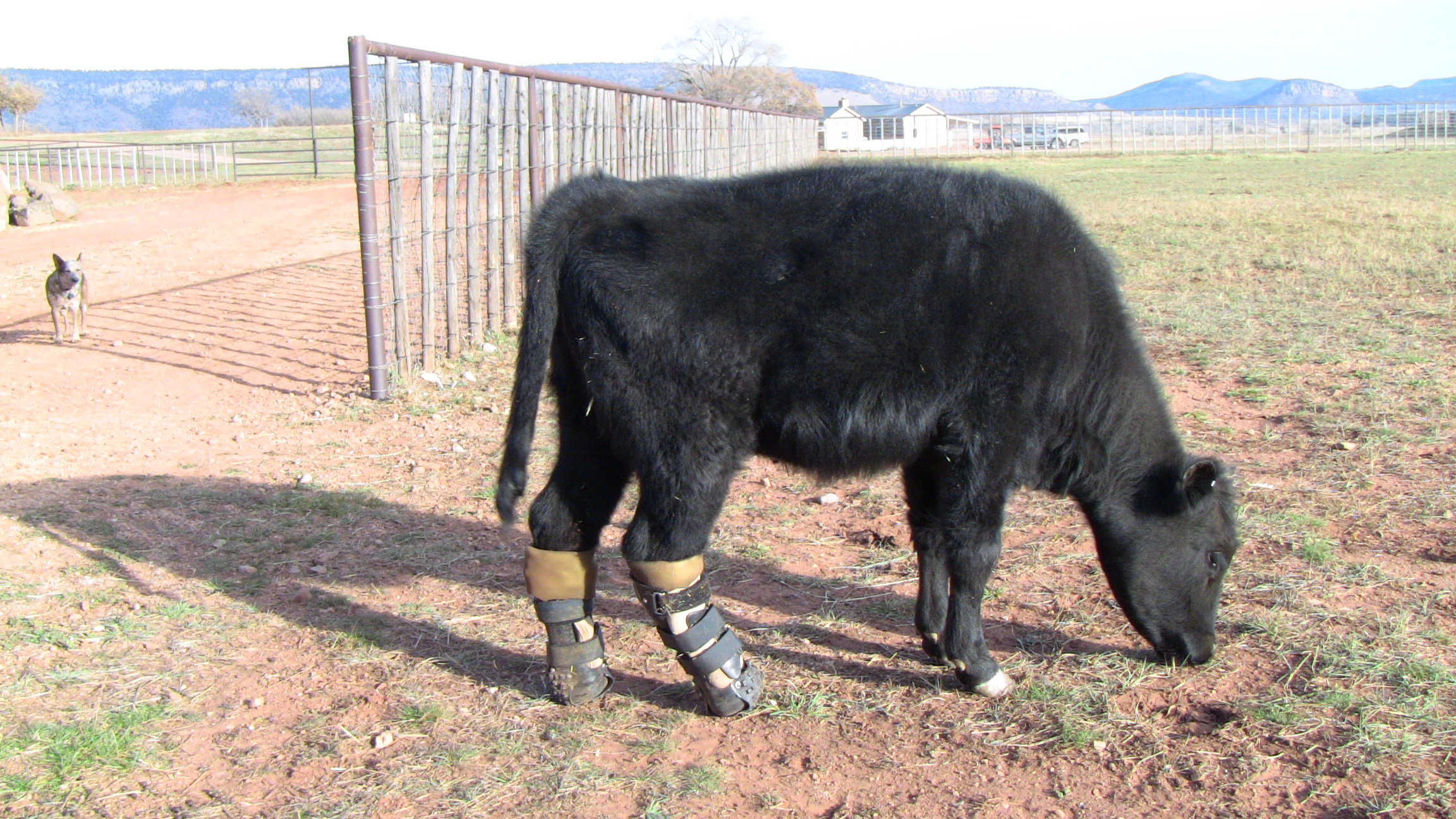 Meadow and her prosthesis.